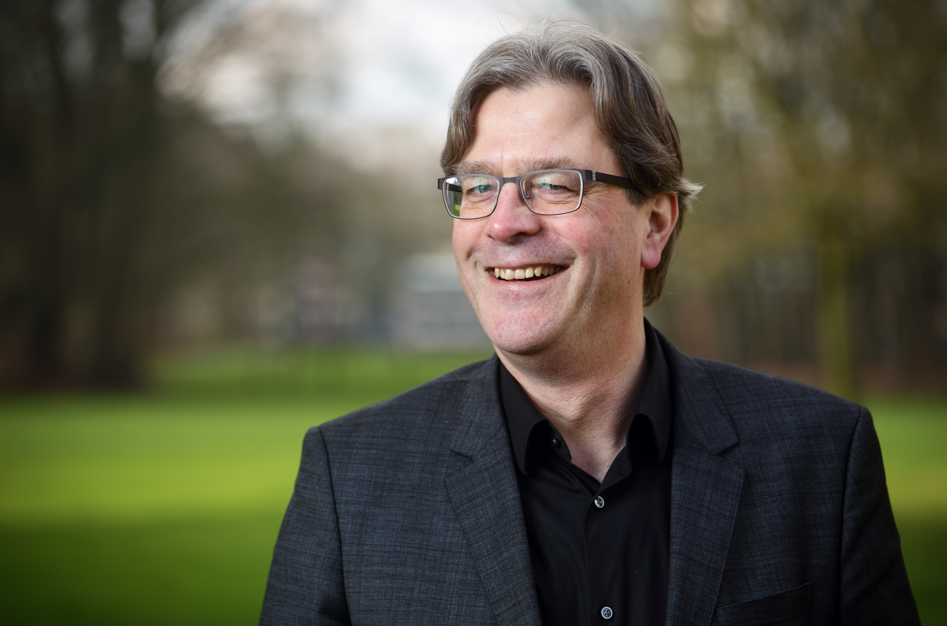 Hendrik (Ed) Brinksma